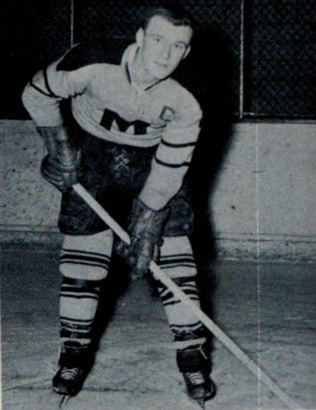 Barry MacKenzie, circa 1962